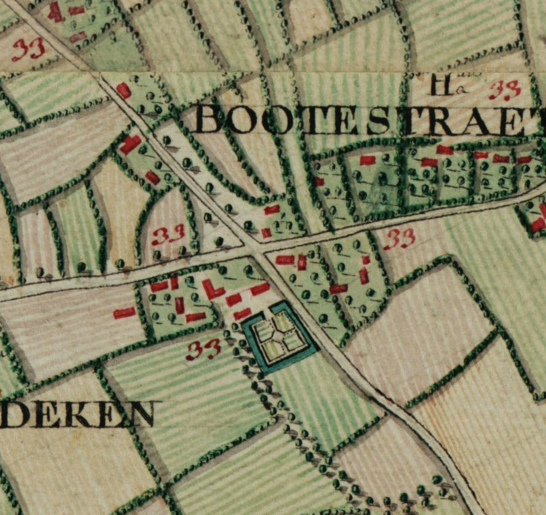 Den Groenen Staek, Mariakerke, gent, belgium, ferraris map